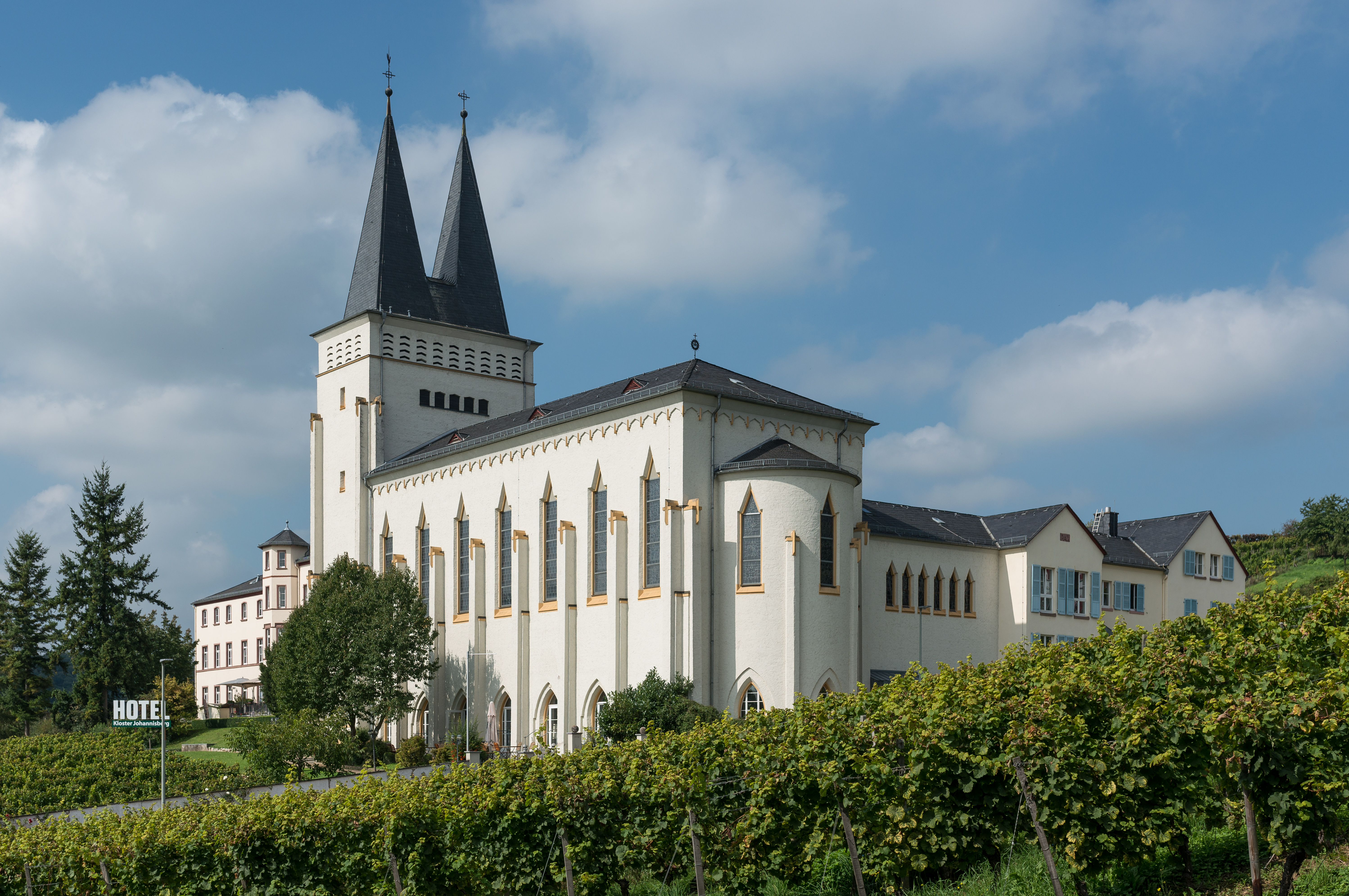 Kloster Johannisberg, the church was only built in 1928 and is used as a restaurant and event location today